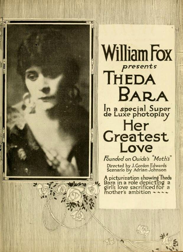 Advertisement in Moving Picture World, Apr 1917 for Her Greatest Love (1917).